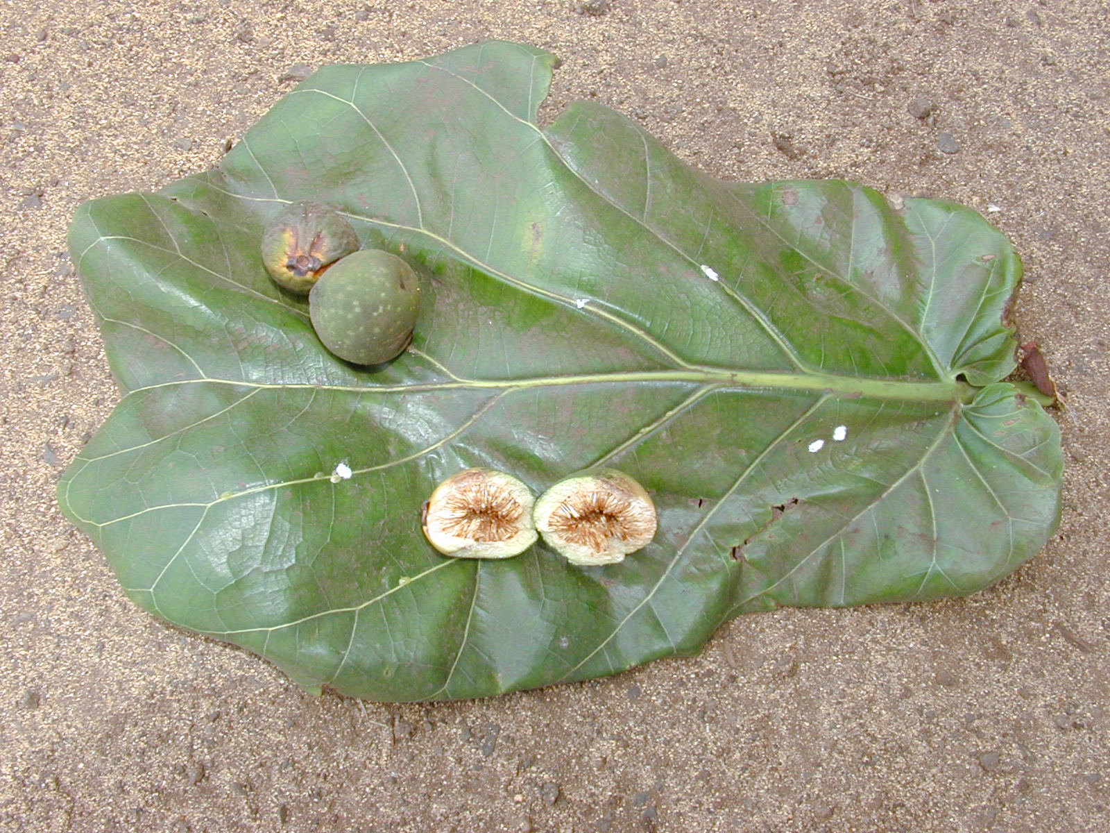 Ficus lyrata (leaf and open fruit). Location: Maui, Kahului